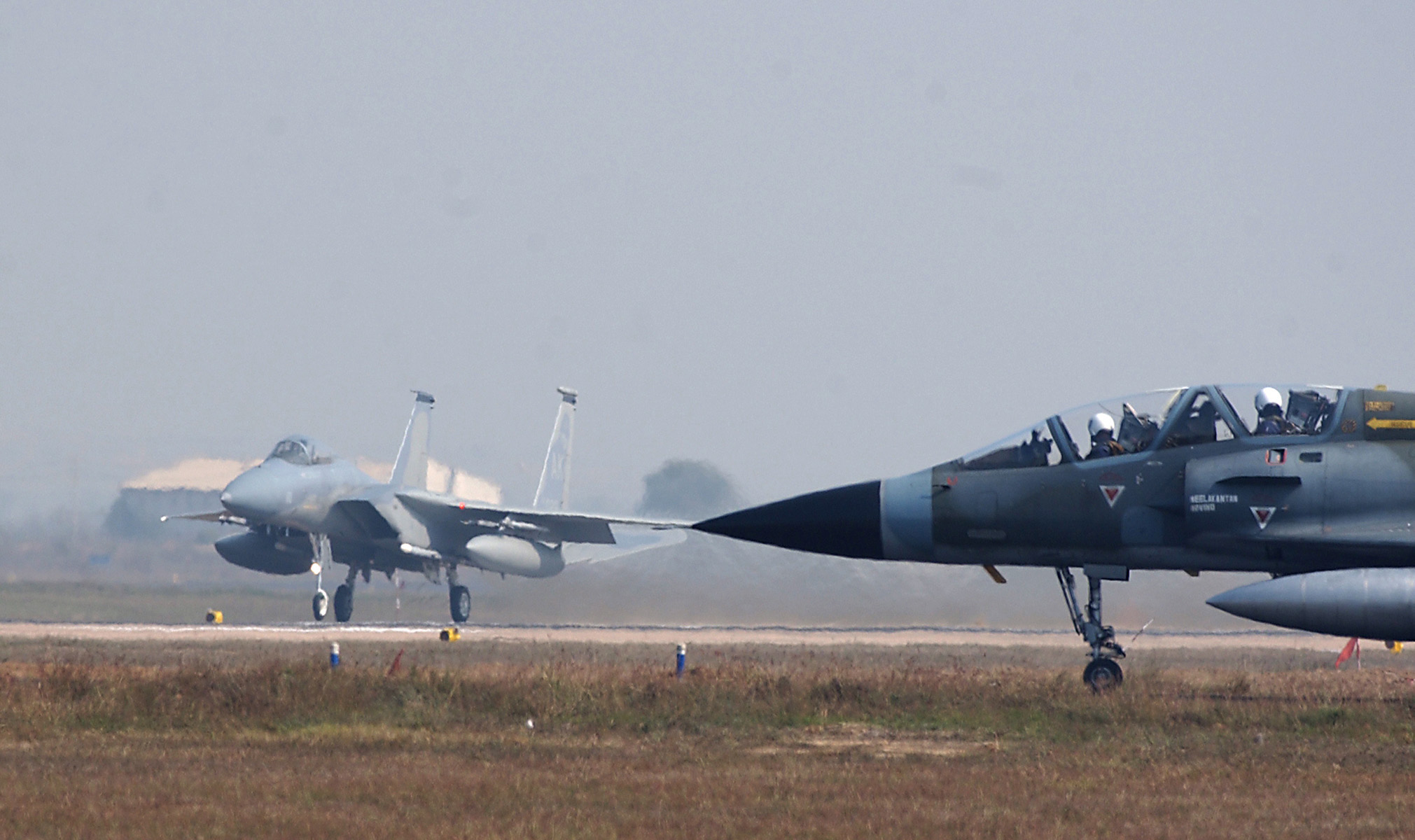 As an Indian Air Force M-2000 Mirage waits to taxi to the runway, a USAF F-15C Eagle takes off from Gwalior Air Force Station, India. Both were en route to a familiarization flight at the start of Cope India 04 -- the first bilateral dissimilar air combat exercise between the two air forces in more than 40 years.